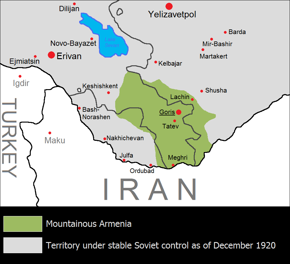 The Republic of Mountainous Armenia from December 1920 to June 1921.Unknown լեռնահայաստանը՝ 1921 թվականին